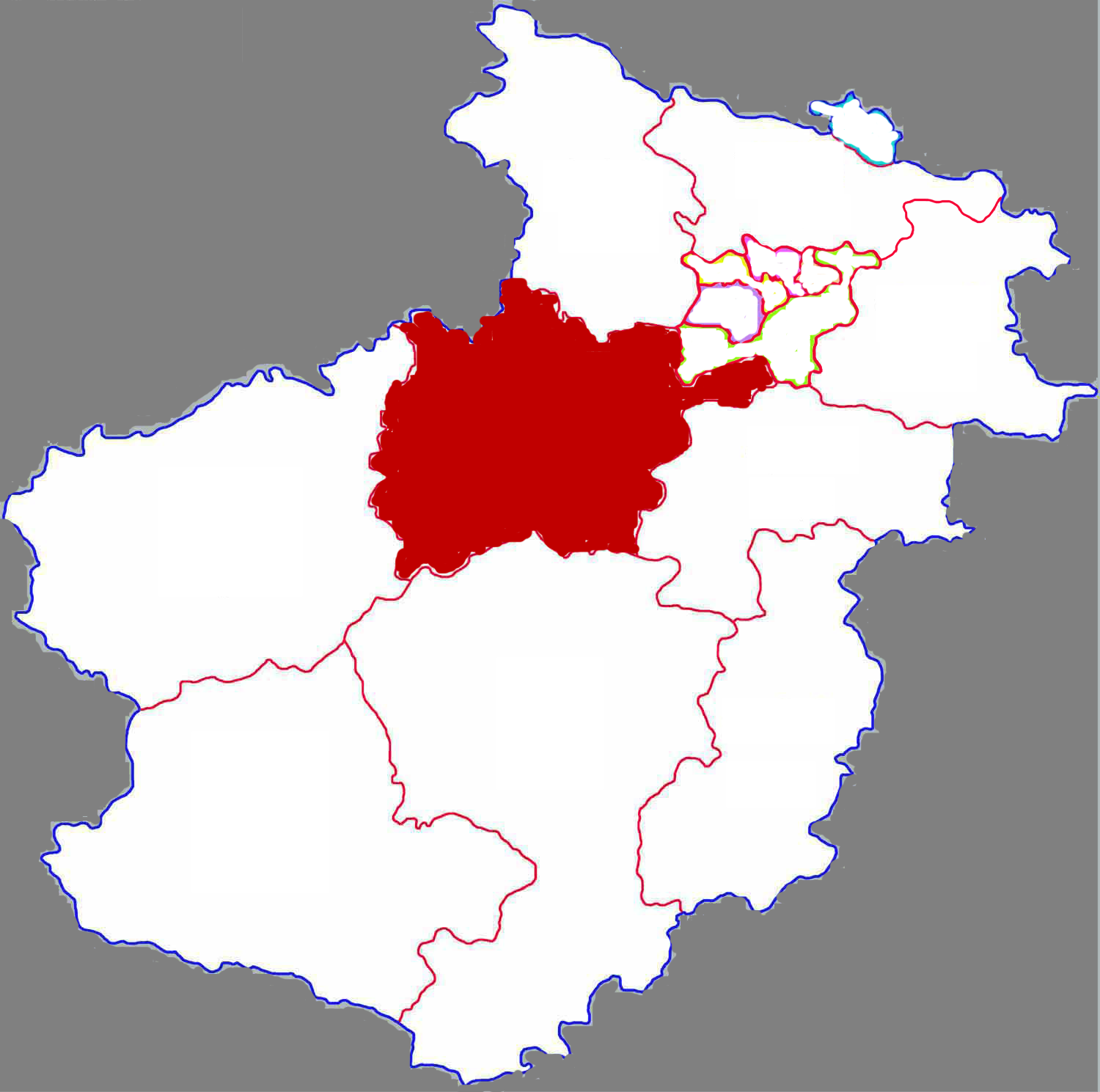 Location of Yiyang county in Luoyang city, China